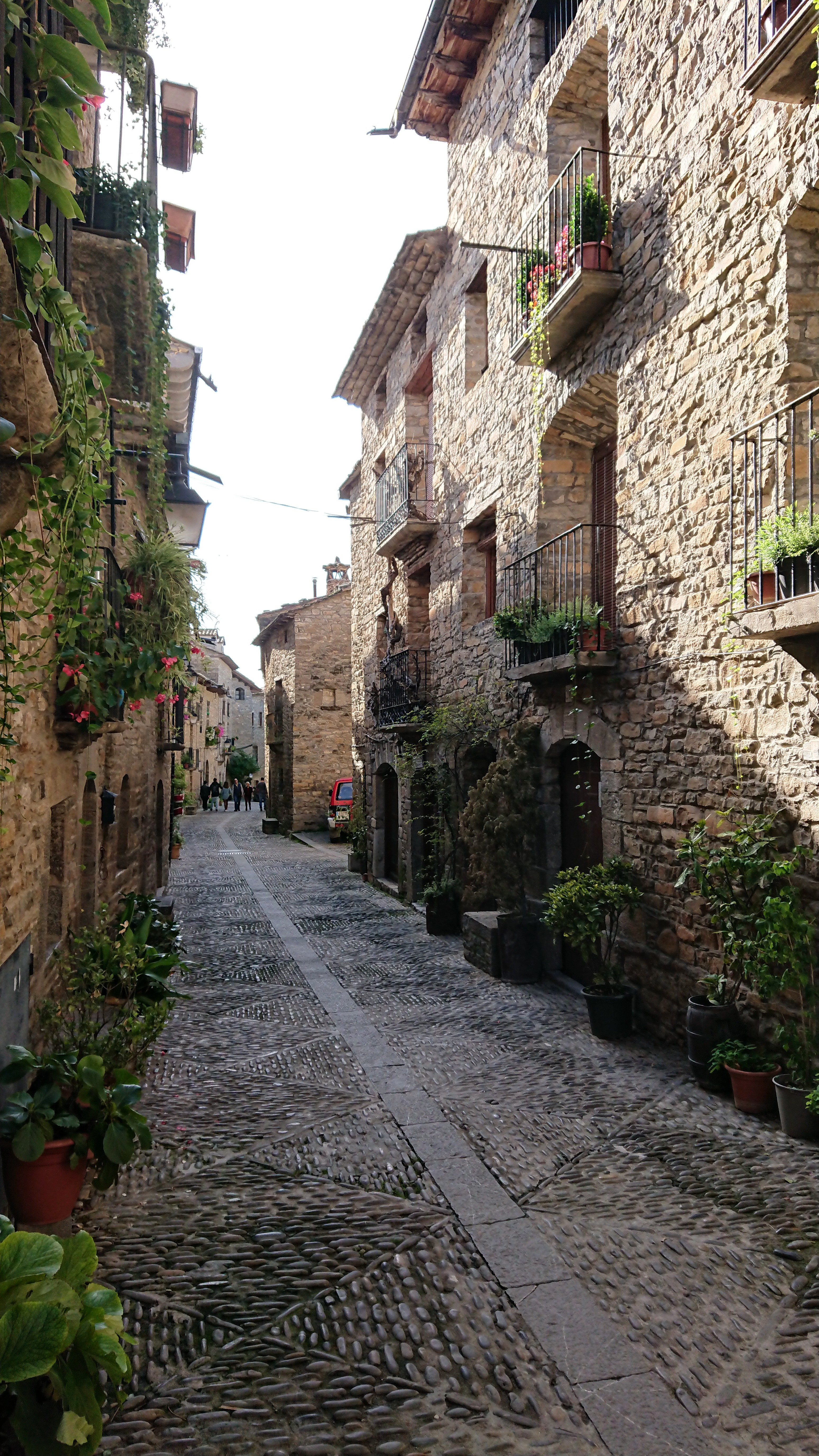 Calle Mayor, Ainsa, Spain